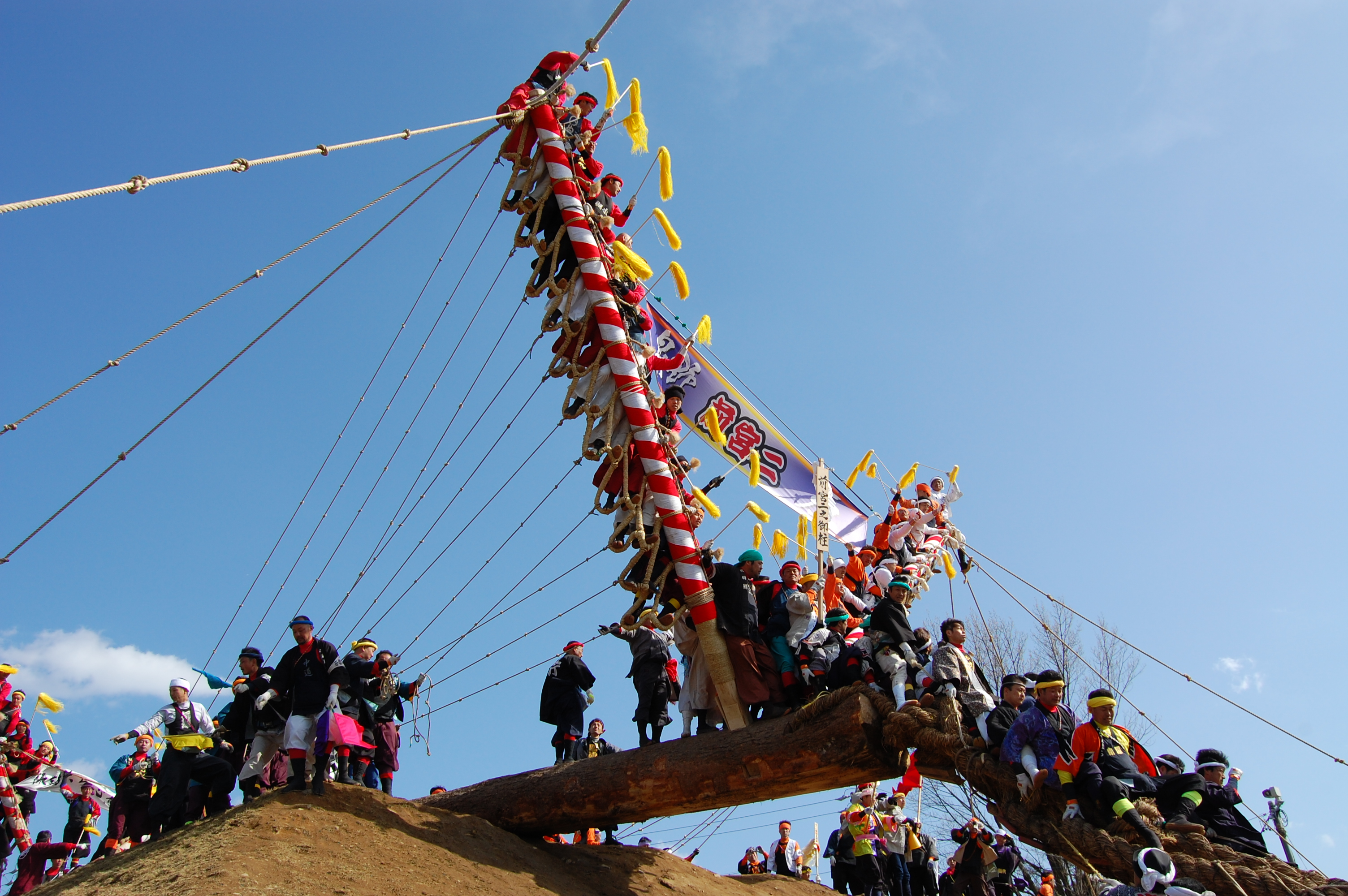 Onbasira festival